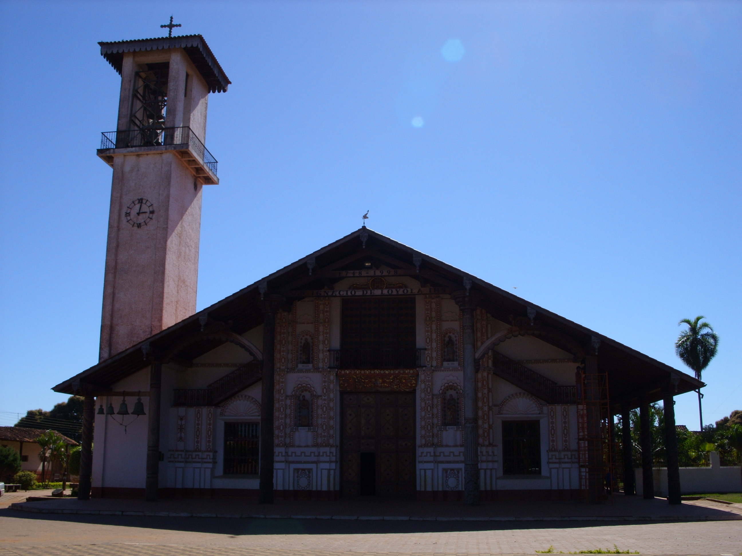 church in san ignacio de velasco